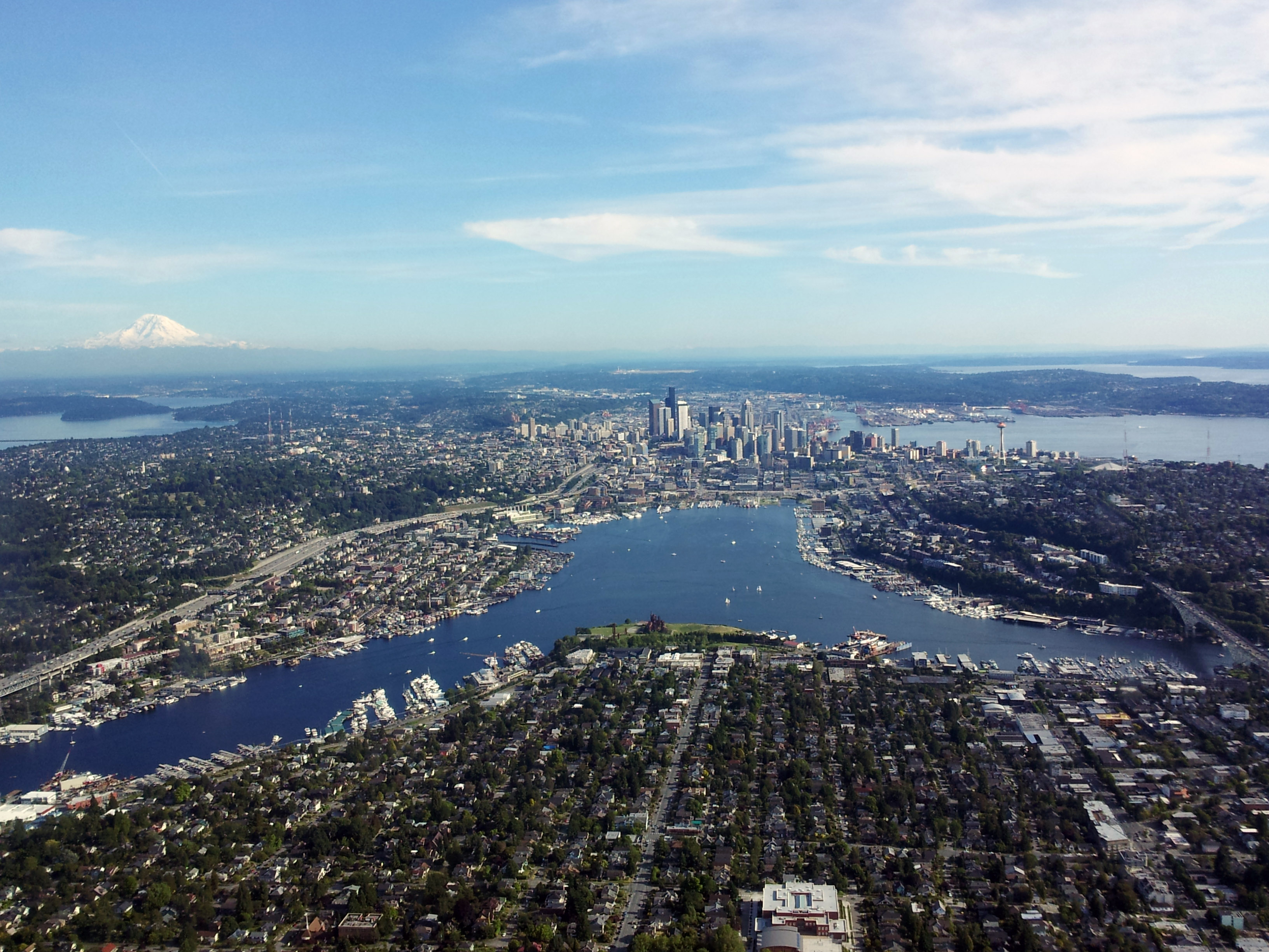 An aerial view of Lake Union, June 27, 2012.